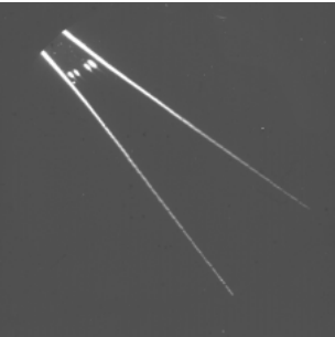 Winkle was a unique radar detector system used by the RAF to track radar jammers on aircraft. This display shows the Winkle system tracking four jammer aircraft, the small "blips". The lines on either side appear to indicate the scanning area.